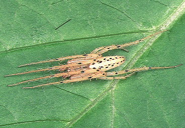 male Larinia argiopiformis from Okinawa.